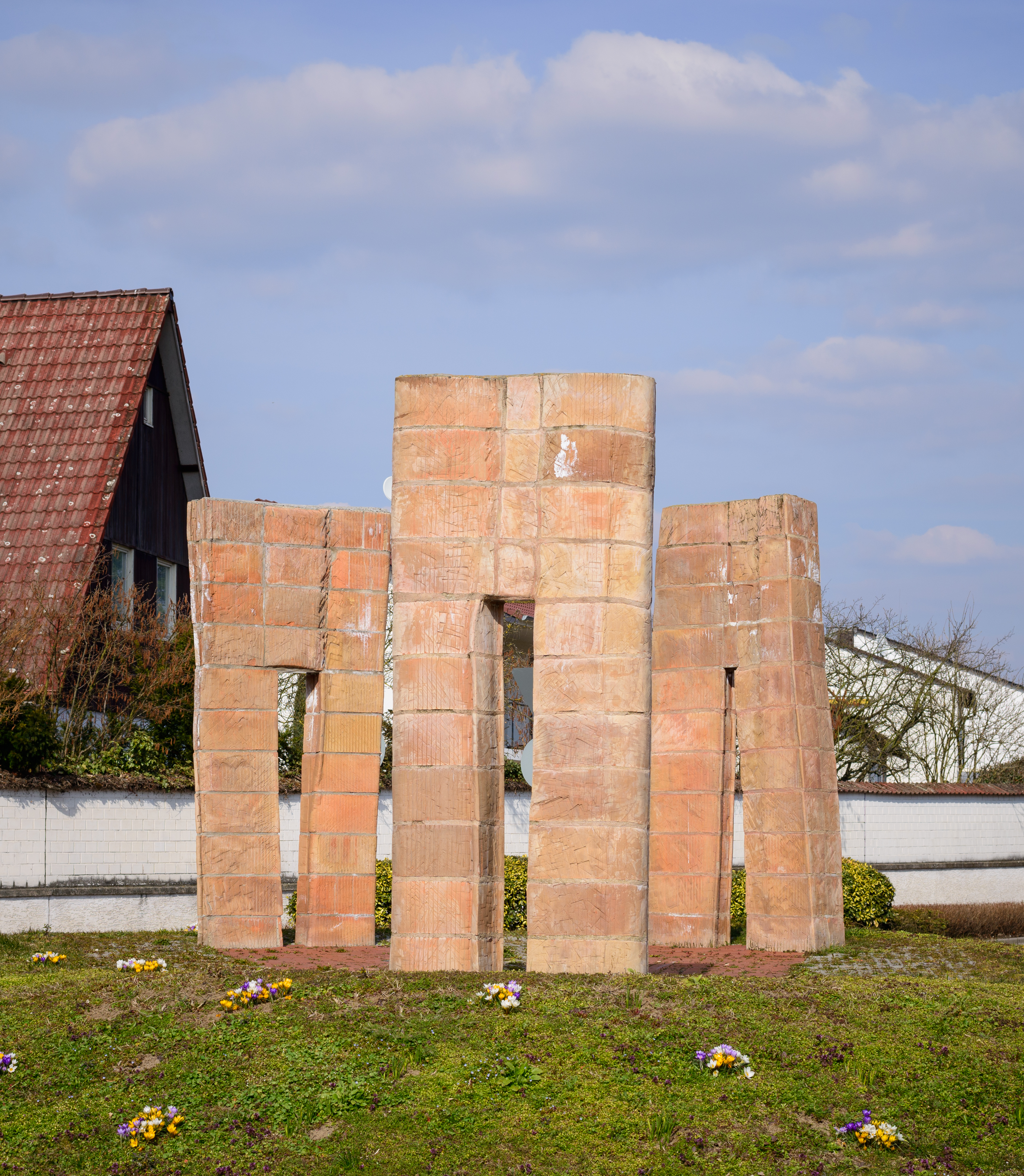 Drei Hohe Tore - Sigrid Siegele, Mörfelden-Walldorf, Hesse, Germany.